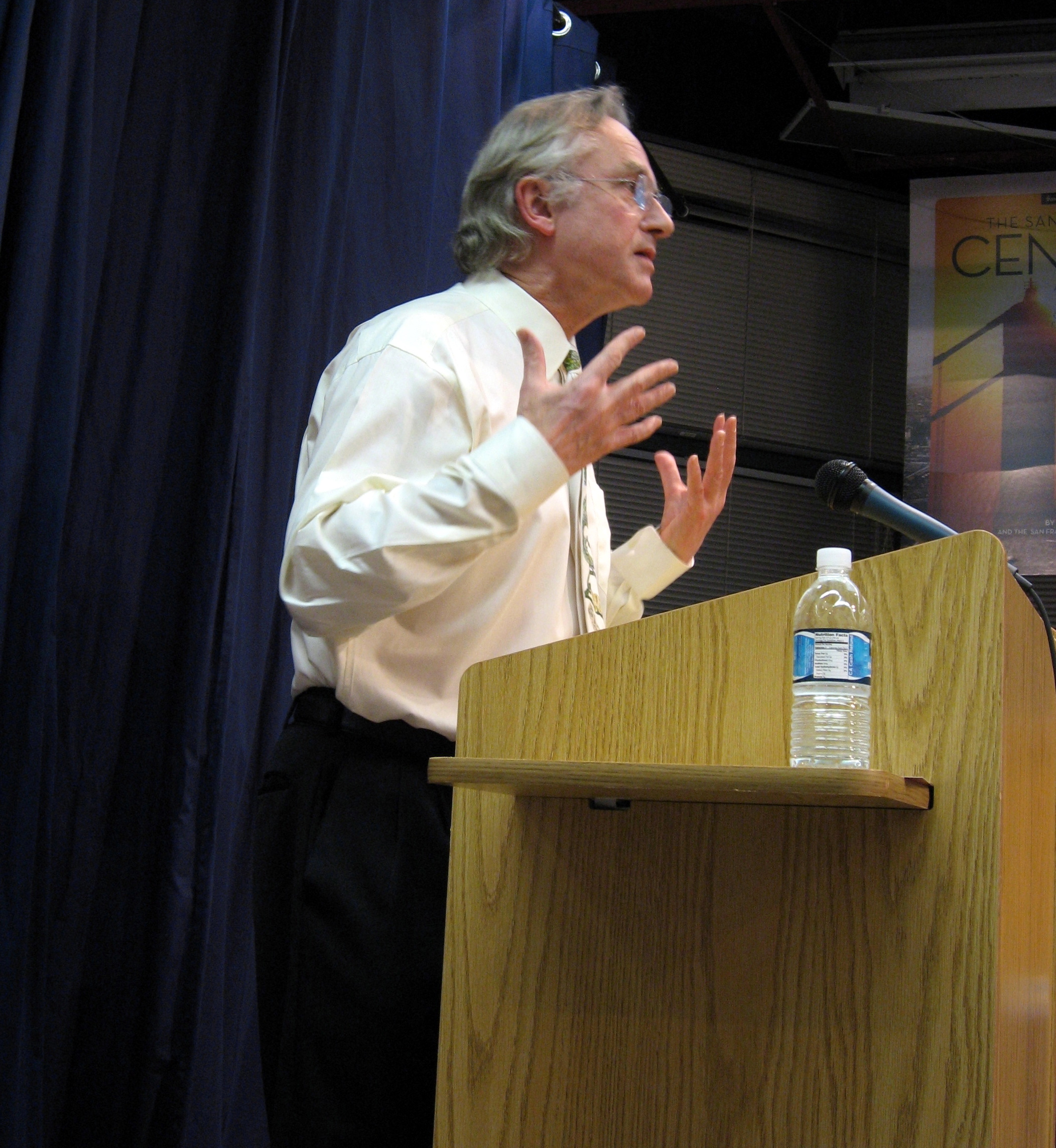 Richard Dawkins talking at Kepler's bookstoreRichard Dawkins’ Sunday Sermon